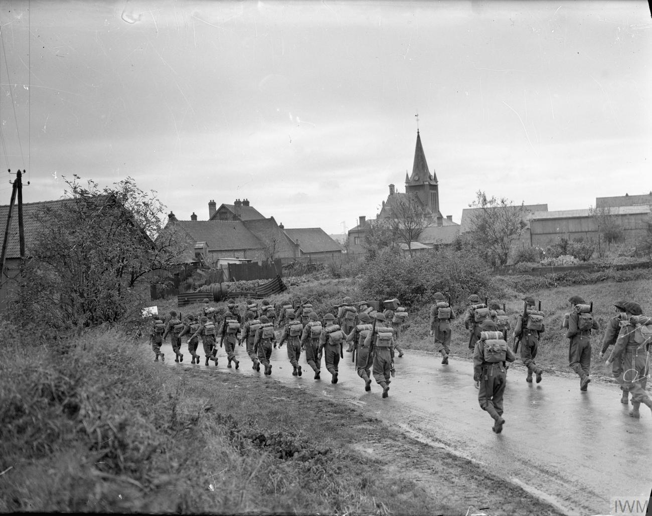 The British Army in France 1939-40 Men of the Royal Irish Fusiliers on the march at Gavrelle, near Arras, 17 October 1939.